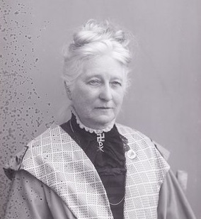 Lilias Ashworth Hallett 1911: Photograph by Colonel Blathwayt. He was the father of Mary Blathwayt and they lived at Eagle House in Somerset. The pictures were taken between 1909 and 1911